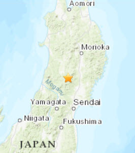 M 5.1 - eastern Honshu, Japan 2010-07-03 19:33:14 (UTC)